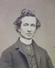 Publicity photo of Harry Watkins, c. 1860s